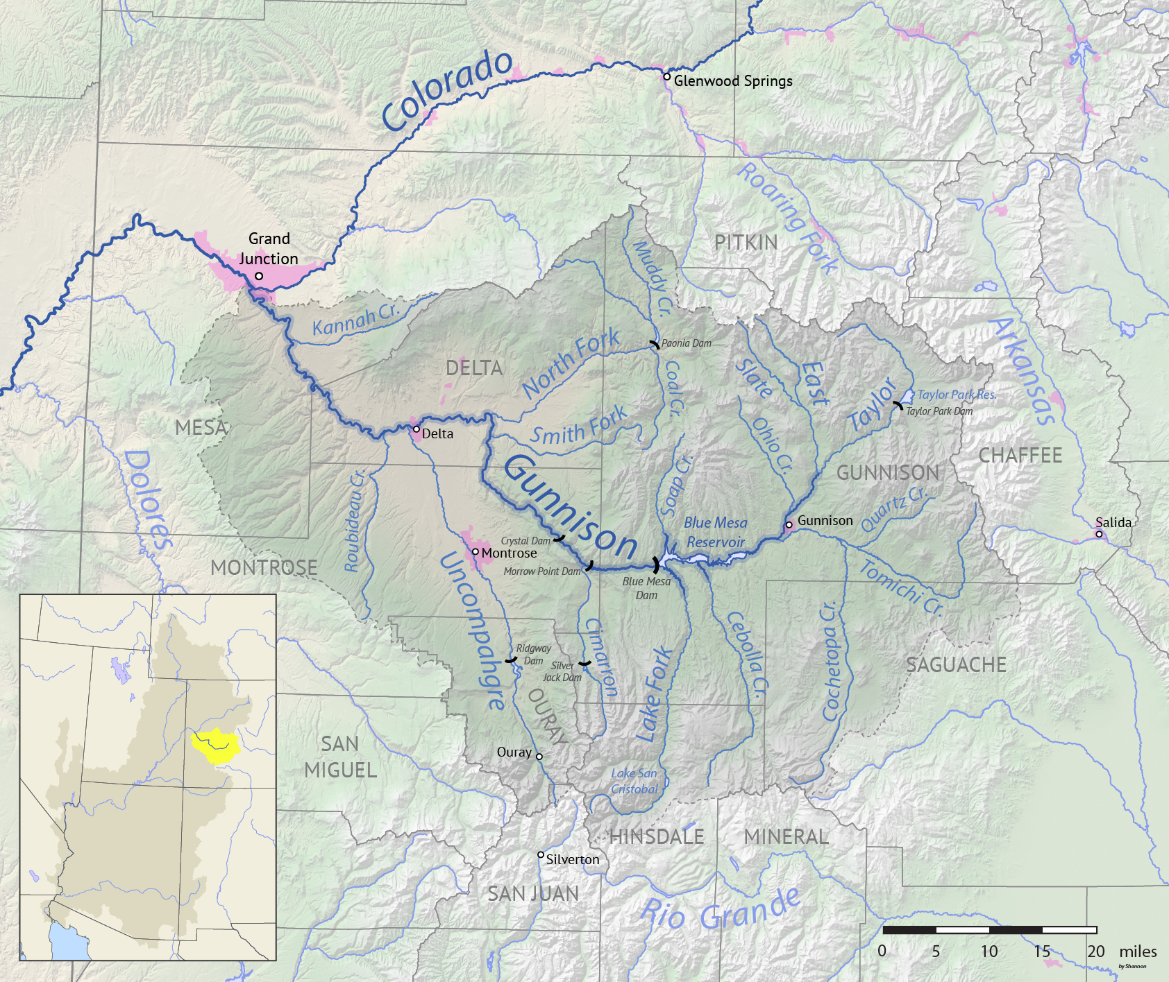 Map of the Gunnison River drainage basin in Colorado, USA. Made using public domain USGS data.